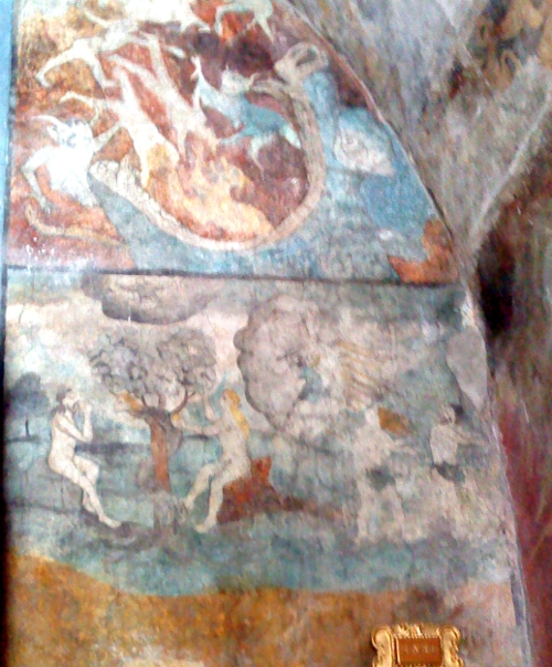 paintings on Xoxoteco church walls